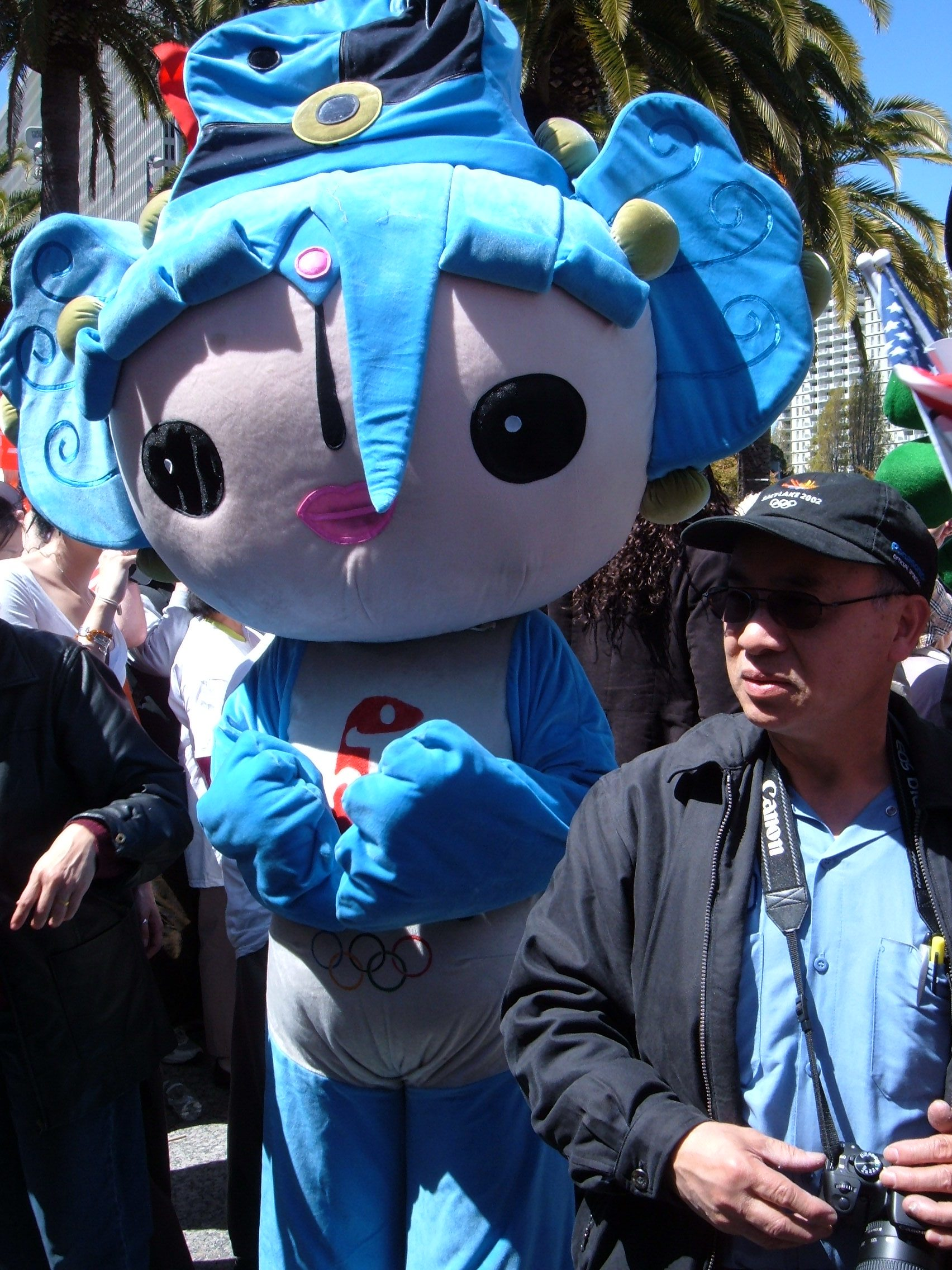 A costumed Fuwa, the character Beibei, at Justin Herman Plaza during the 2008 Summer Olympics torch relay in San Francisco. For an explanation and additional photos of my experience during the relay please see User:BrokenSphere/Gallery/San Francisco Bay Area/San Francisco/2008 Olympic Torch Relay.